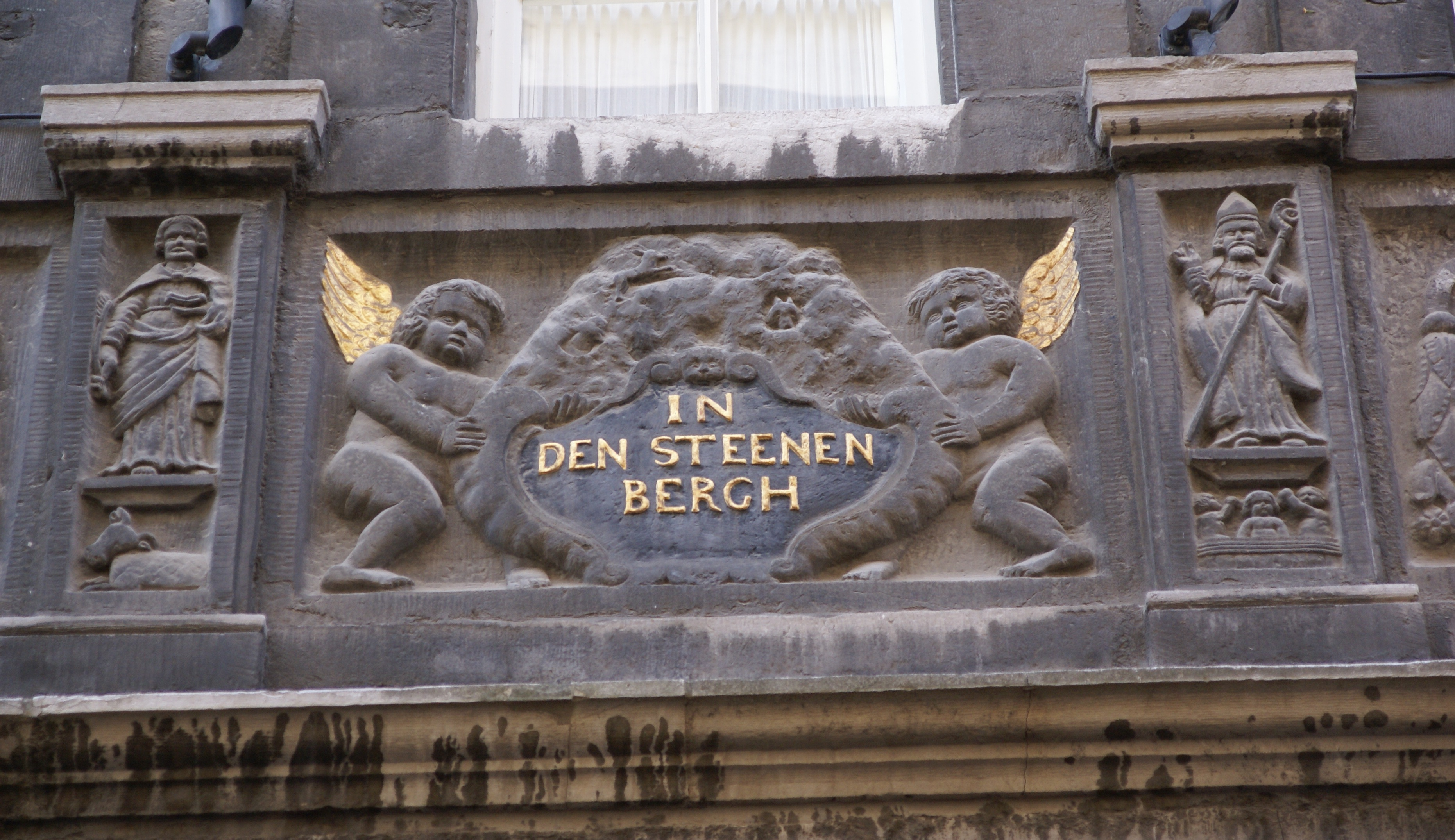 National monument no. 27580 - Stokstraat 28, Maastricht, The Netherlands. Gable stone dating from 1669.